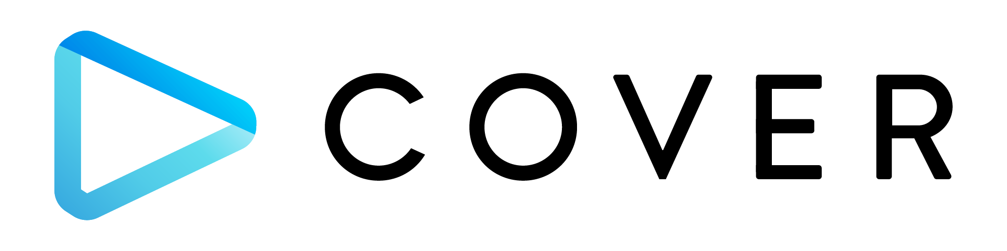 Horizontal logo of Cover Corp.